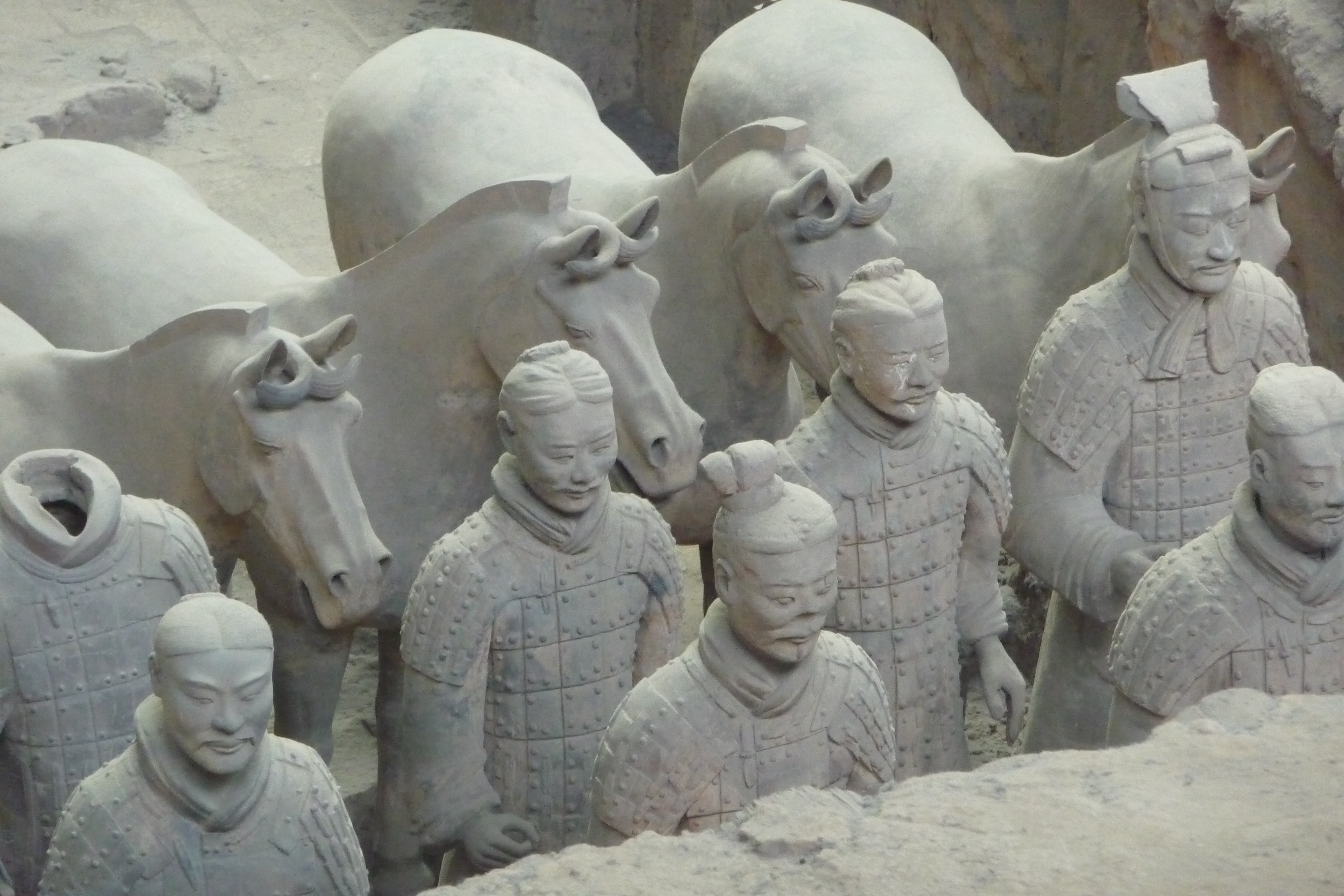 Terracotta soldiers with horses